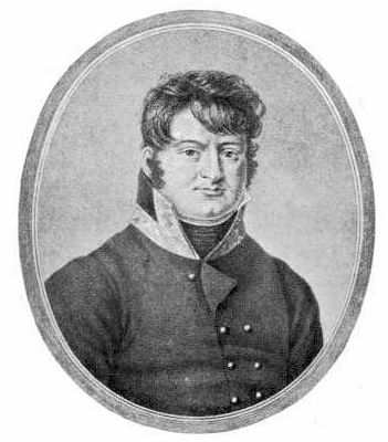 Portrait of General Ferdinand, Graf Bubna von Littitz